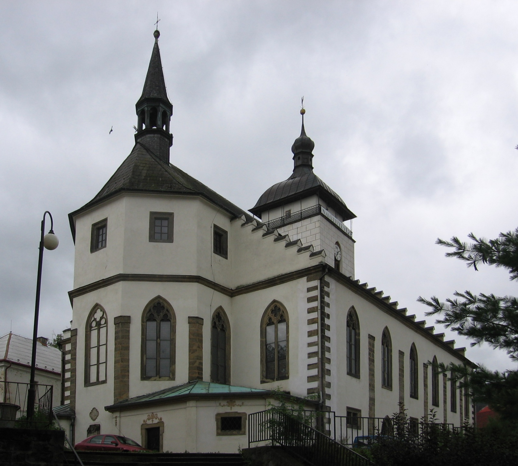 Dean Church of St James the Greater in Česká Kamenice (Czech Republic)